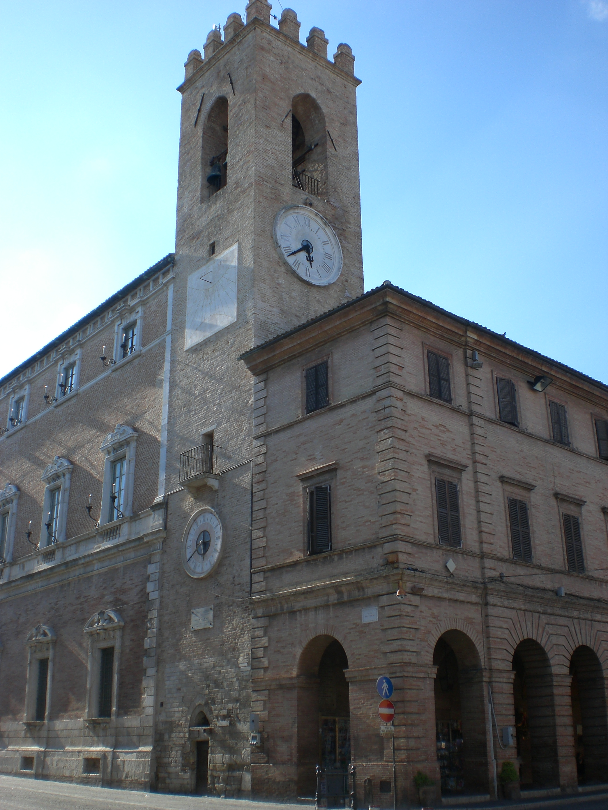 Osimo, Town Hall Tower, XIII century